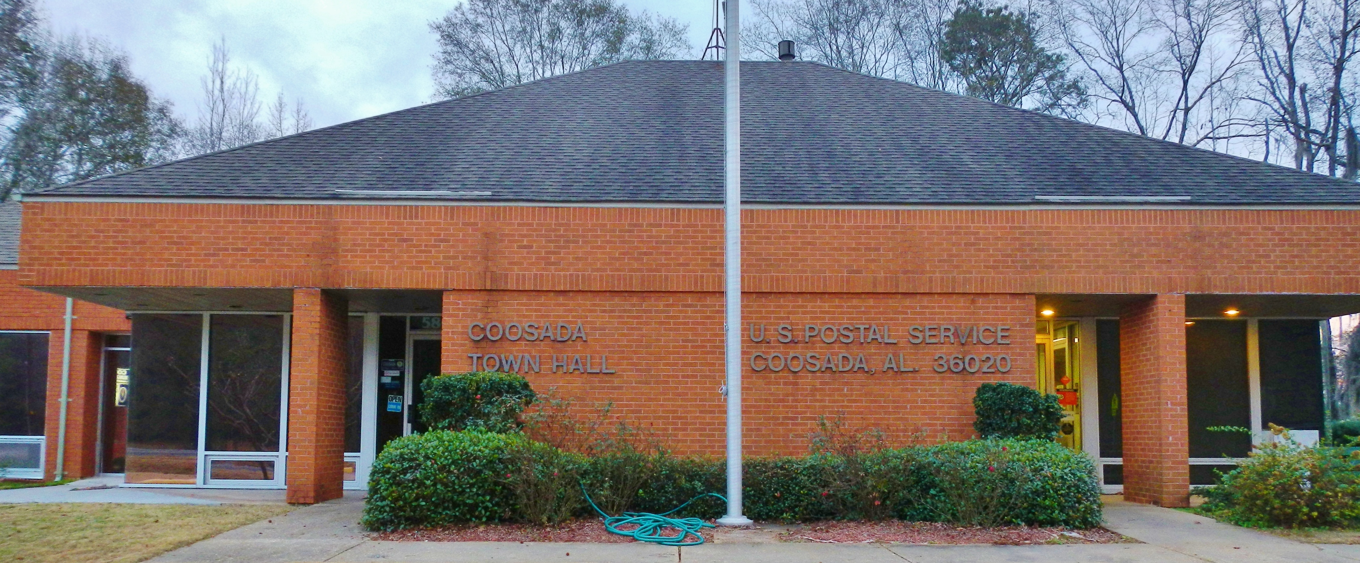 This is a photograph of the town hall and post office of Coosada, Alabama.